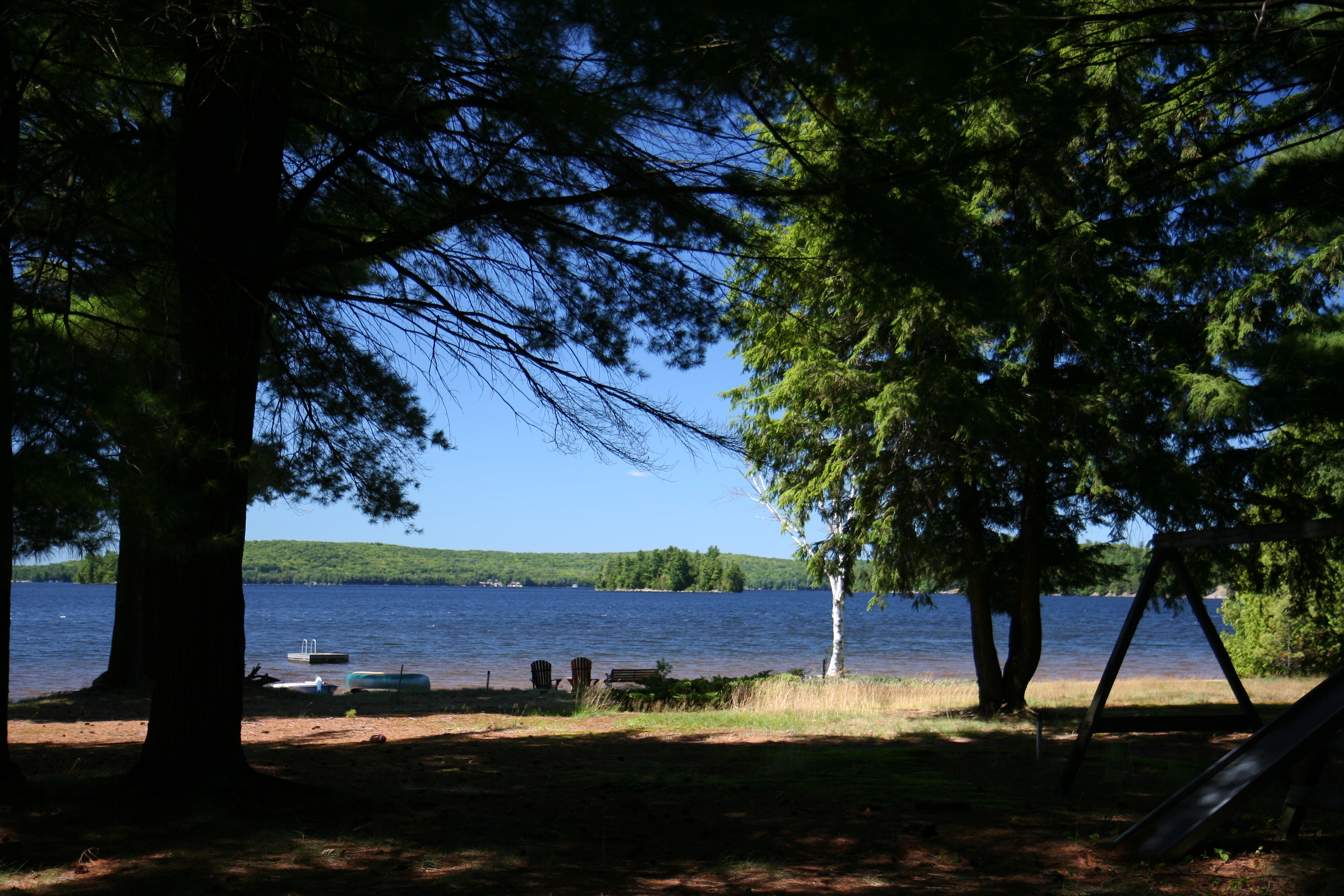 Lake of Bays, in Muskoka, Ontario, Canada, as seen from the Krüger and Bain cottages, located on the property of the former Wawa Hotel